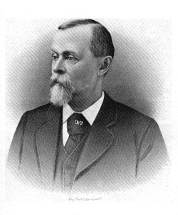 Johnson Hagood (1829-1898), Governor of South Carolina. From Cyclopedia of eminent and representative men of the Carolinas of the nineteenth century, 1892